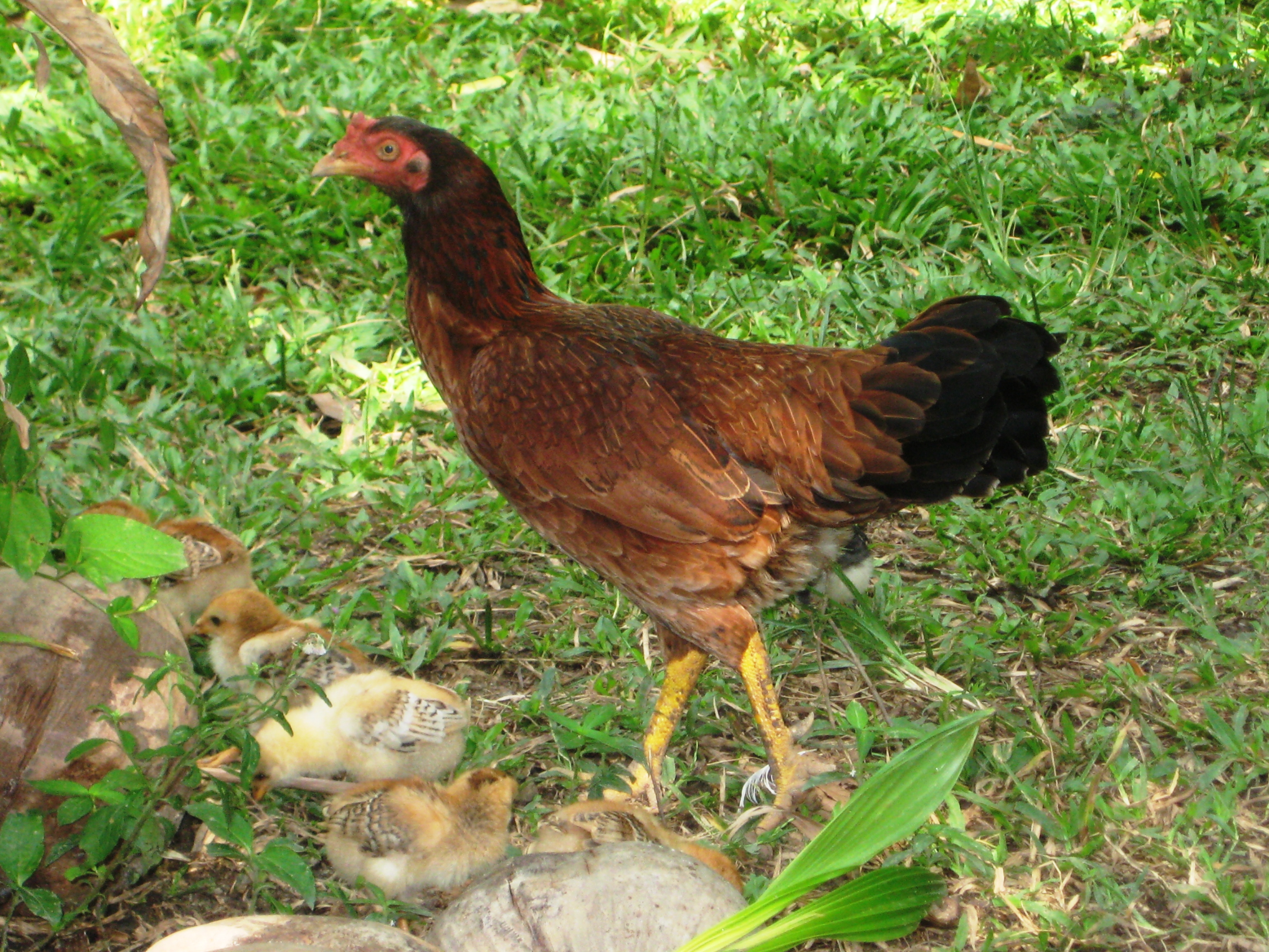 The Malay (chicken) female. Taken from a village in Kelantan, east coast Malaysia